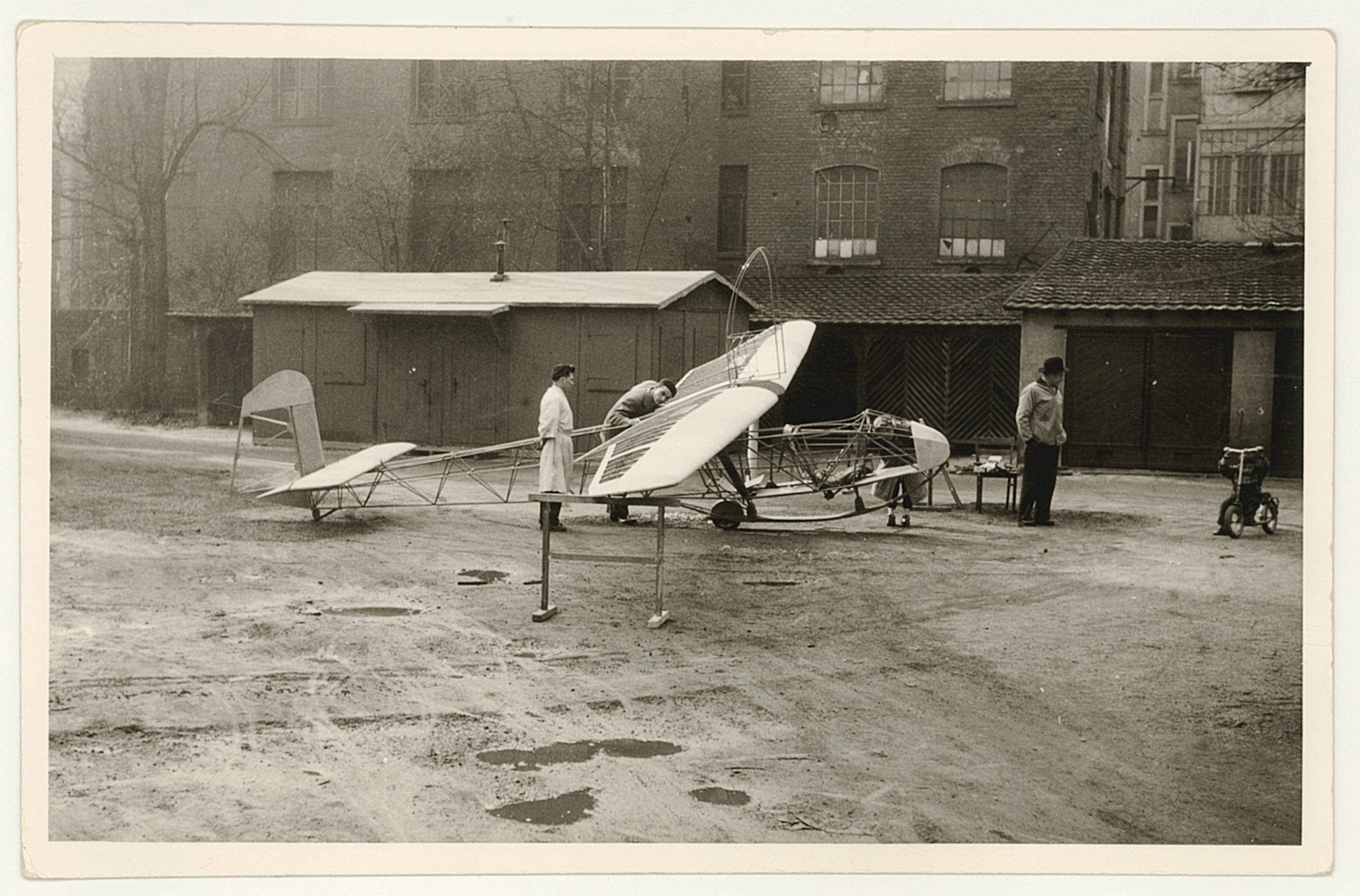 Construction (test assembly) of a Ka 4 by Akaflieg Frankfurt at Goethe-University in 1957